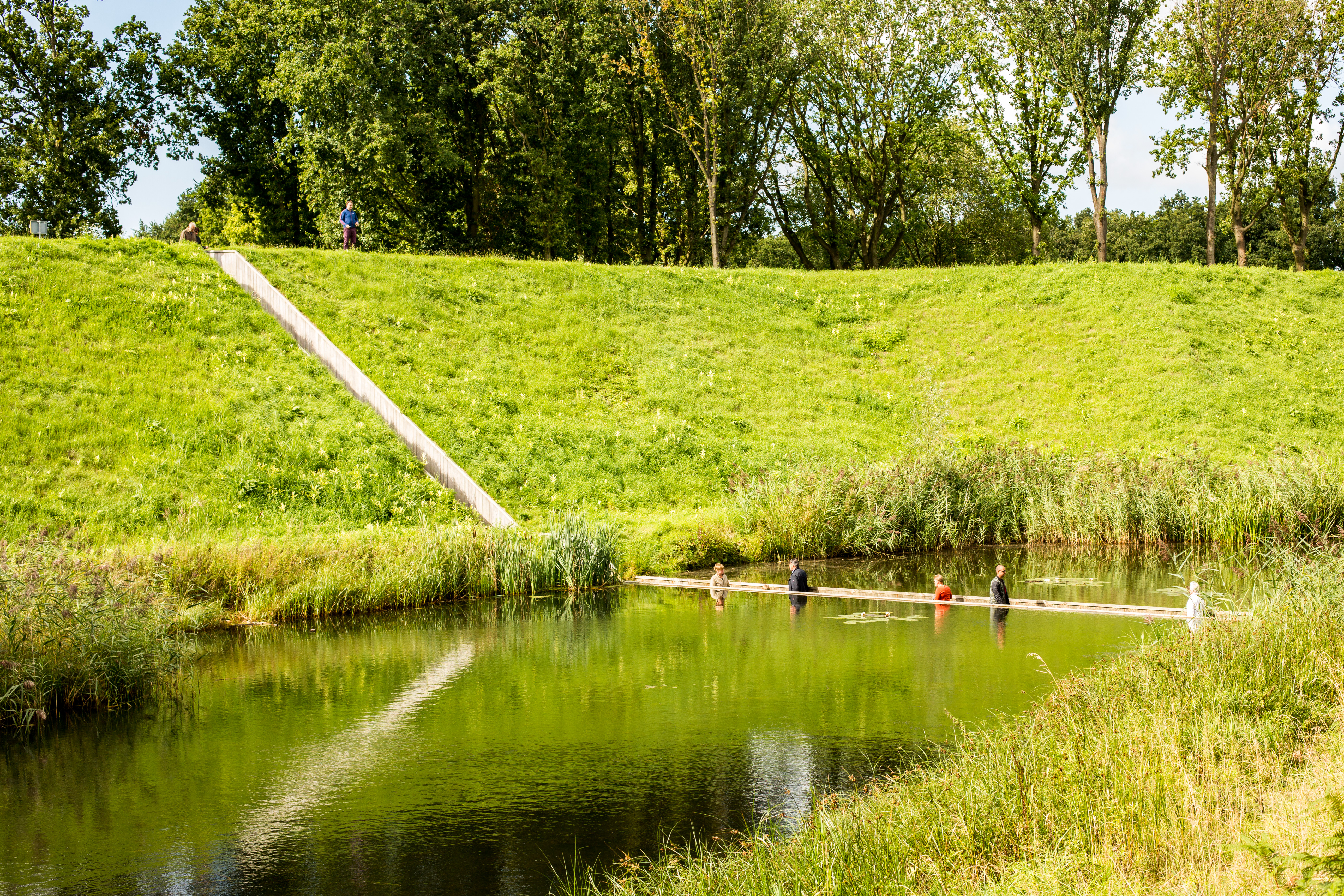 I was lucky enough to be able to visit Fort de Roovere in The Netherlands and spend some time exploring Moses Bridge.